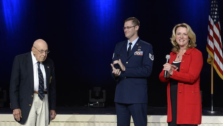 Air Force Secretary Deborah Lee James announces the name of the Air Force's newest bomber, the B-21 Raider, with the help of retired Lt. Col. Richard Cole, one of the Doolittle Raiders, and Tech. Sgt. Derek White, assigned to the Maryland Air National Guard during the Air Force Association's Air, Space and Cyber Conference in National Harbor, Md., Sept. 19, 2016. White was one of the winners of the B-21's naming contest; his entry was inspired by Cole. (U.S. Air Force photo/Scott M. Ash)